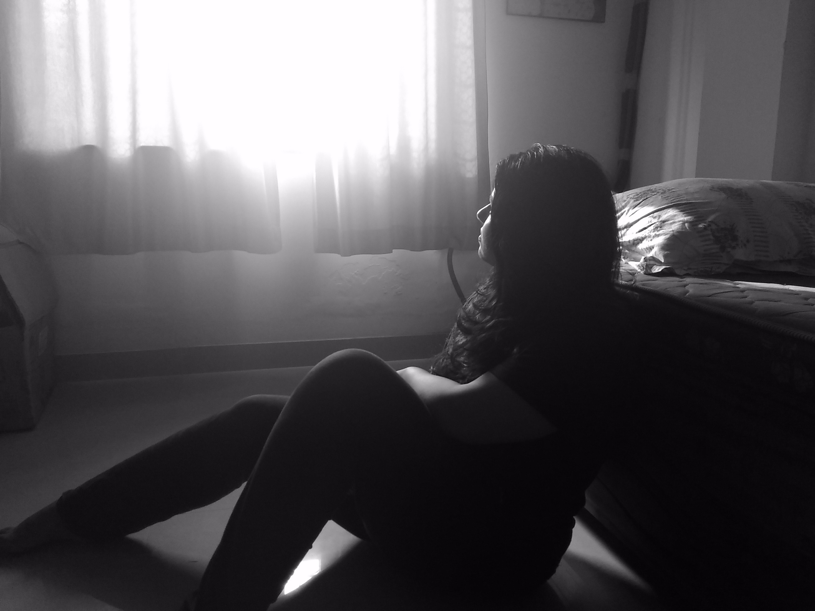 My sister seating in sadness but with a hint of optimism on her face!